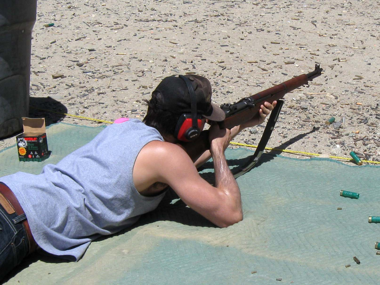 The real "America's Rifle."